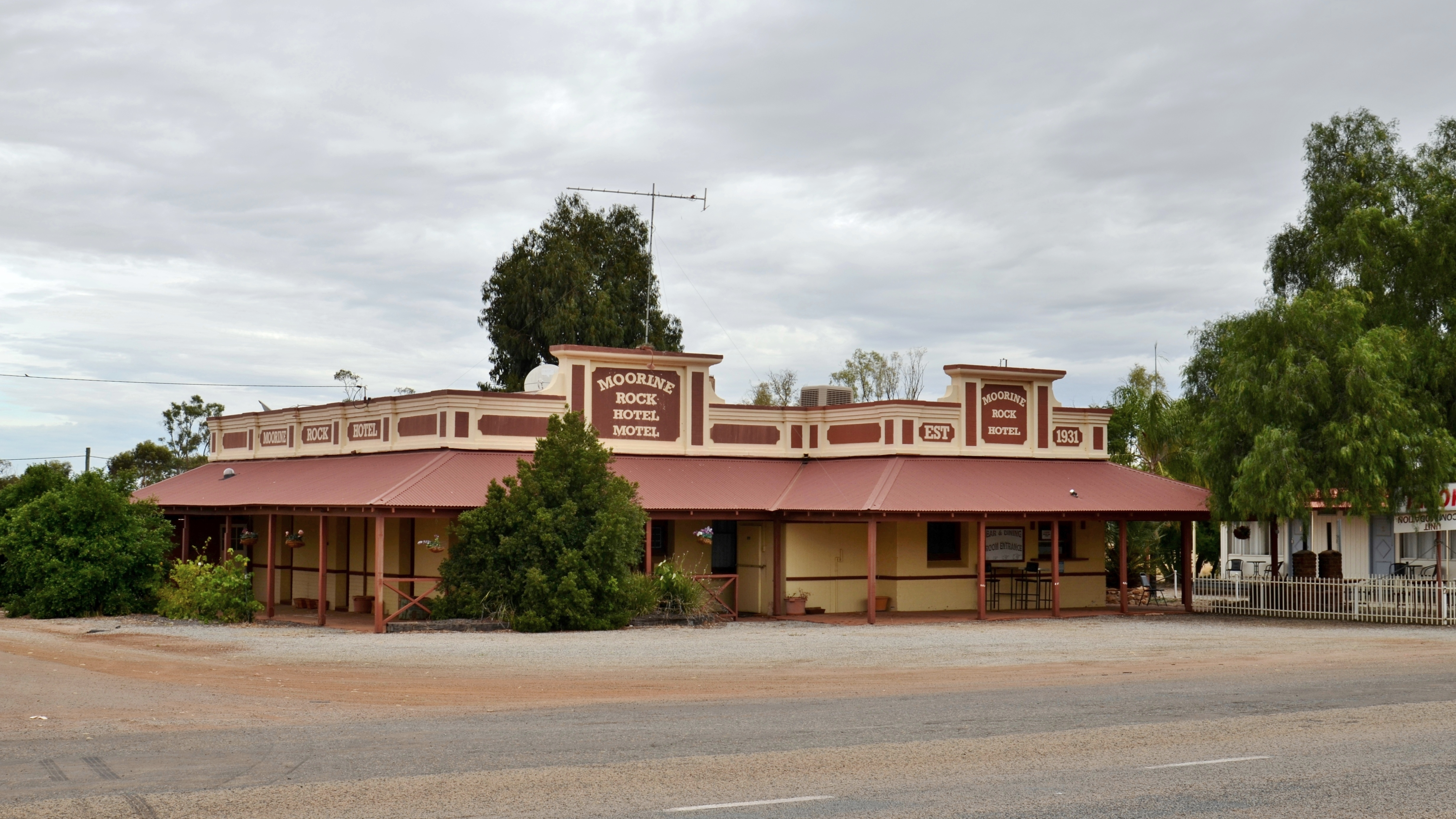 View of the Moorine Rock Hotel Motel, Moorine Rock, Western Australia.